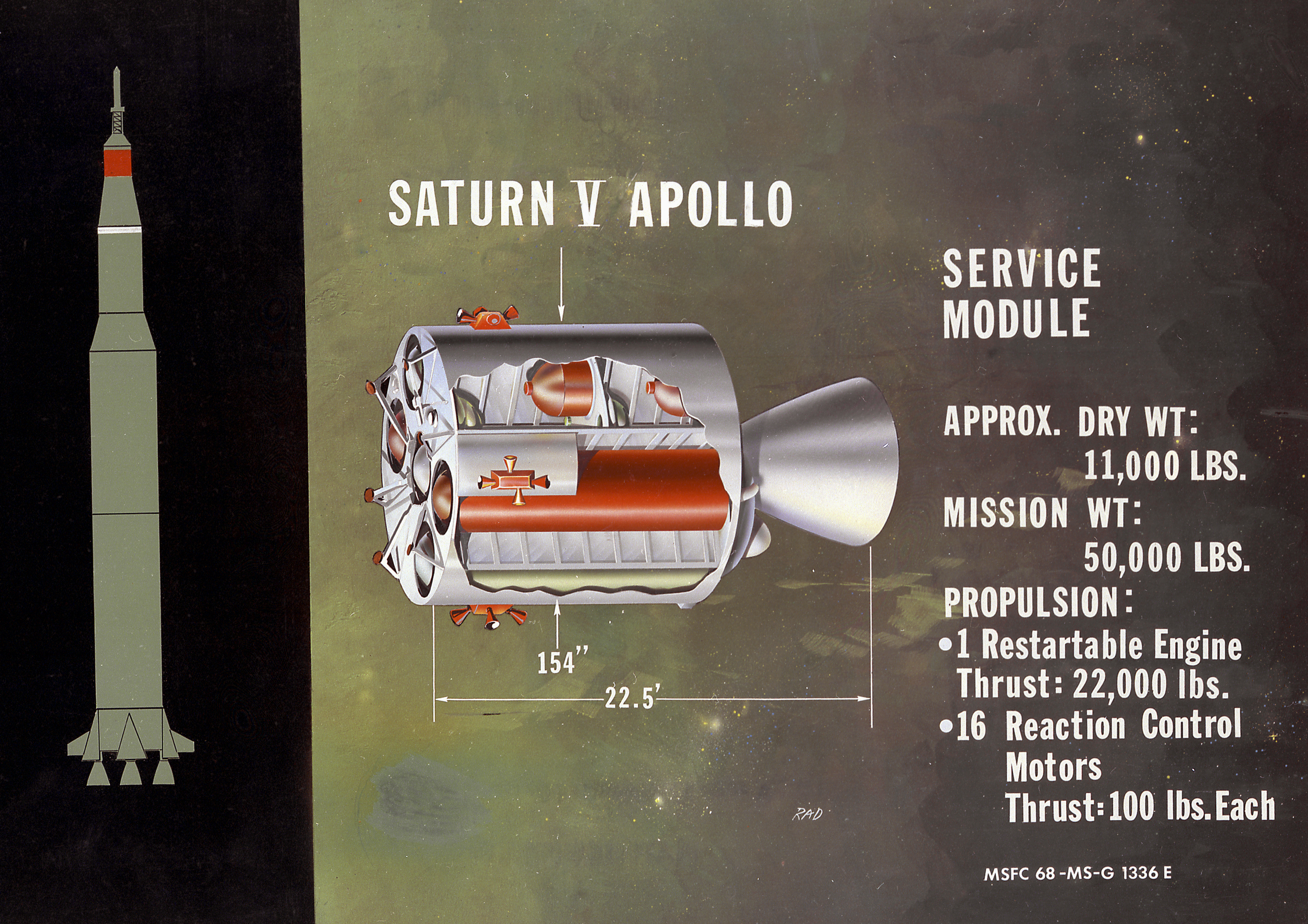 This is a cutaway illustration of the Saturn V service module configuration. Packed with plumbing and tanks, the service module was the command module's constant companion until just before reentry. All components not needed during the last few minutes of flight, and therefore requiring no protection against reentry heat, were transported in this module. It carried oxygen for most of the trip, fuel cells to generate electricity (along with the oxygen and hydrogen to run them); small engines to control pitch, roll, and yaw; and a large engine to propel the spacecraft into, and out of, lunar orbit.